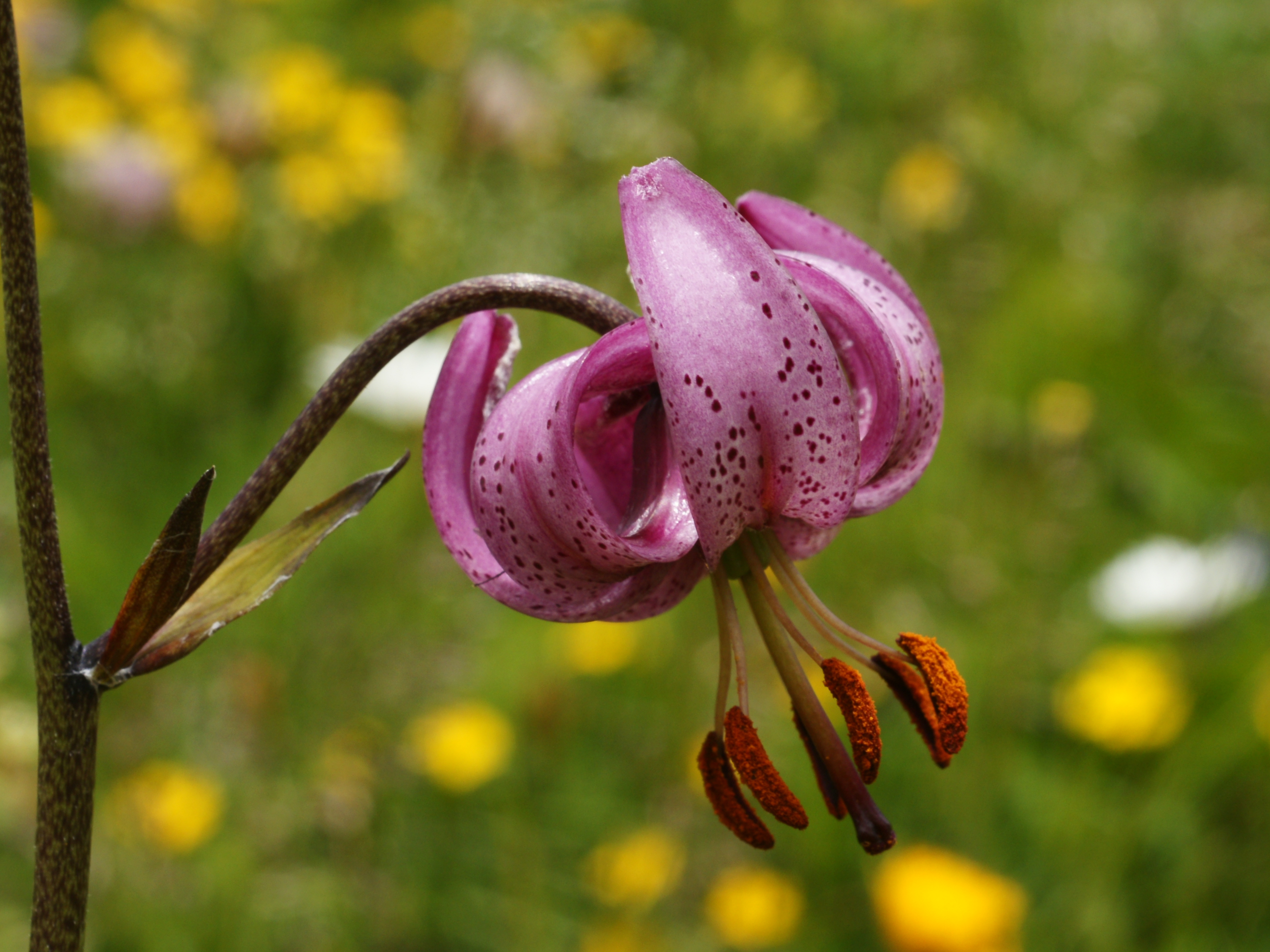 Martagon lily near the Great St. Bernard Pass at the Italian side.